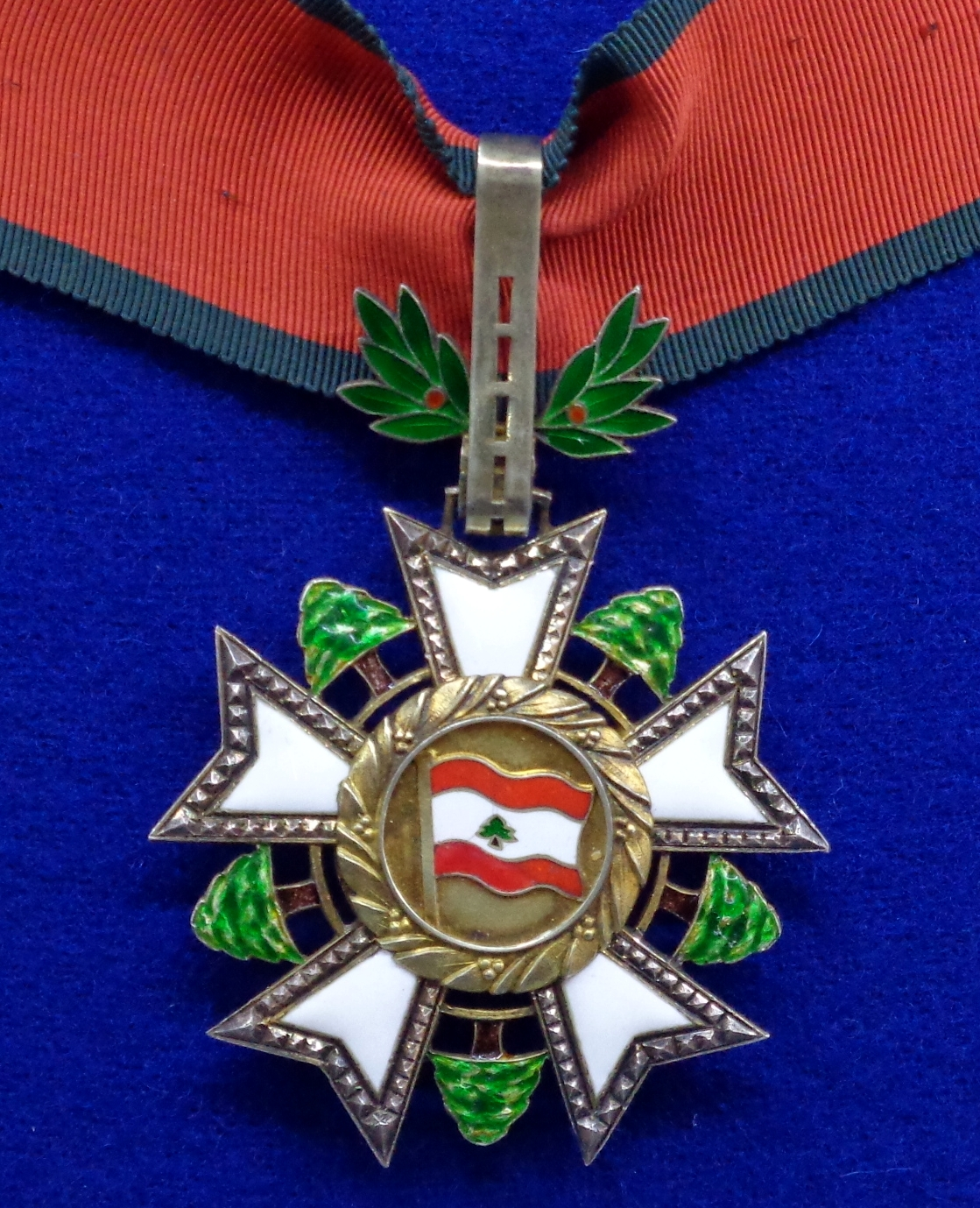 National Order of the Cedar, Commander's badge, reverse, 1970. Lebanon. The exhibition of the Tallinn Museum of Orders of Knighthood, Estonia.